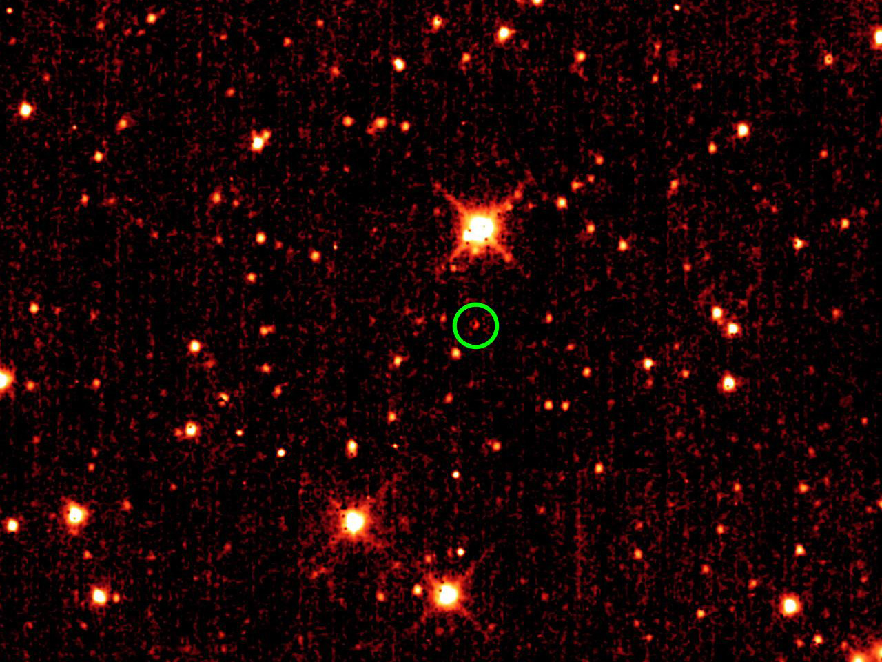 A Glimmer in the Eye of WISE Asteroid 2010 TK7 is circled in green, in this single frame taken by NASA's Wide-field Infrared Survey Explorer, or WISE. The majority of the other dots are stars or galaxies far beyond our solar system. Astronomers discovered this object -- the first known Earth Trojan asteroid -- after sifting through asteroid candidates identified by WISE. This image was taken in infrared light at a wavelength of 4.6 microns in Oct. 2010. The original NASA image has been modified by cropping.